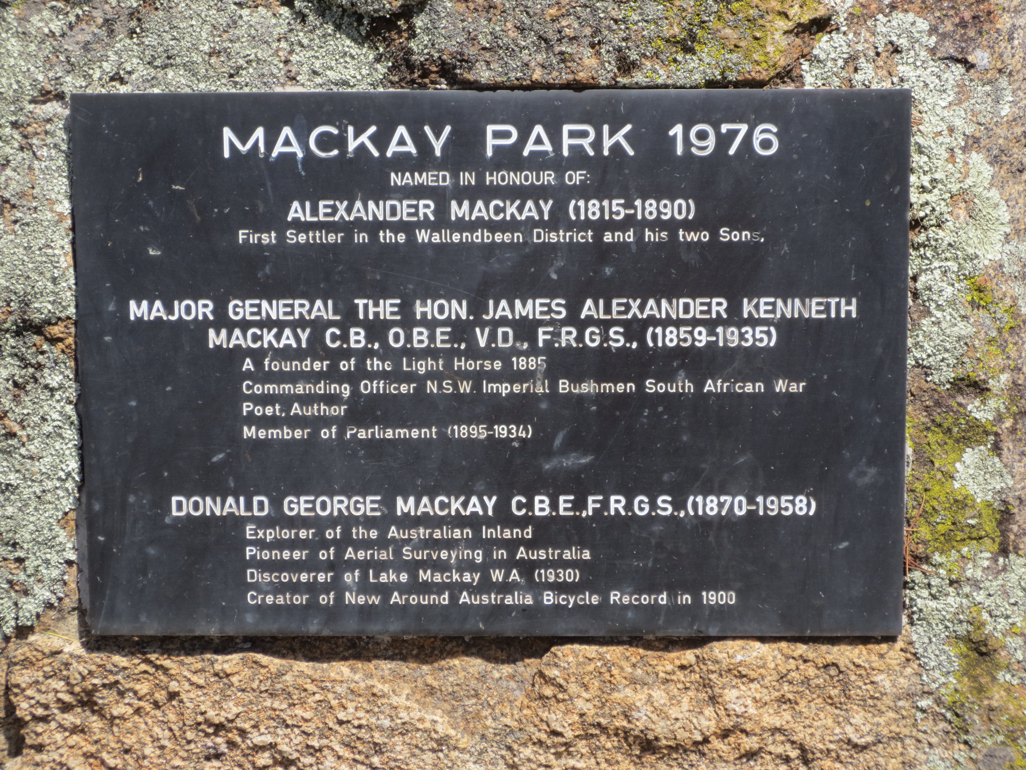 park sign memorial park Alexander Mackay in Wallendbeen